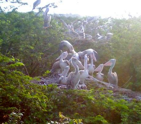 Pelicanus philippensis nest and colony at Uppalapadu, Guntur, Andhra Pradesh (India)